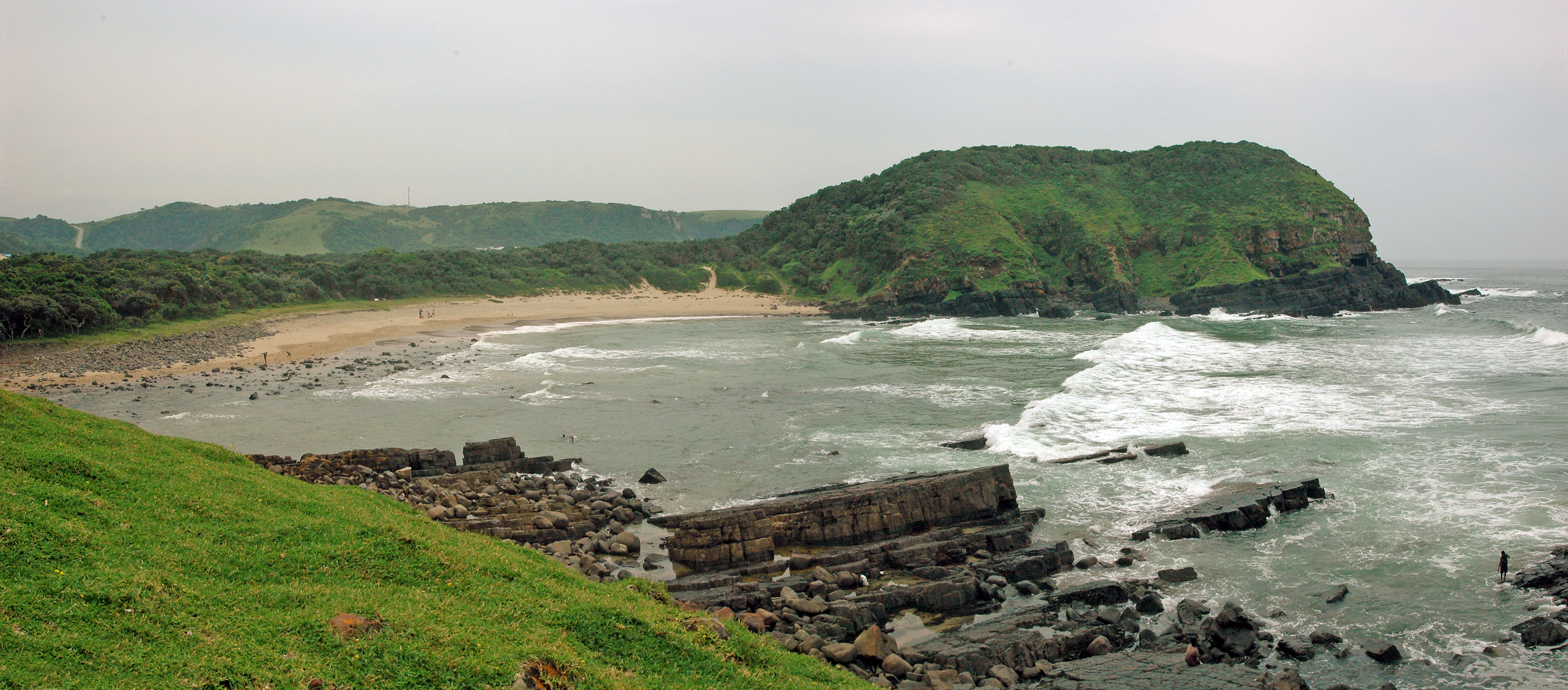 Panorama of Coffee Bay